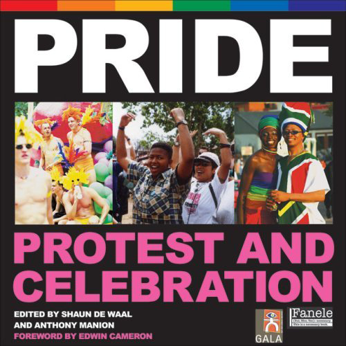 Pride: Protest and Celebration, by Shaun De Waal, Anthony Manion and Edwin Cameron, is a history of South Africa's gay pride marches and parades over the last 16 years.